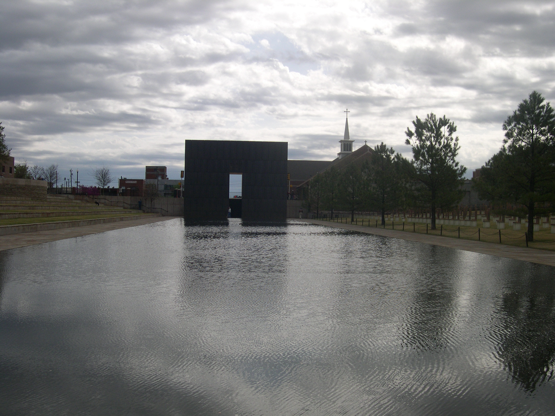 The Reflecting Pool and the Gates of Time at the Oklahoma City National Memorial